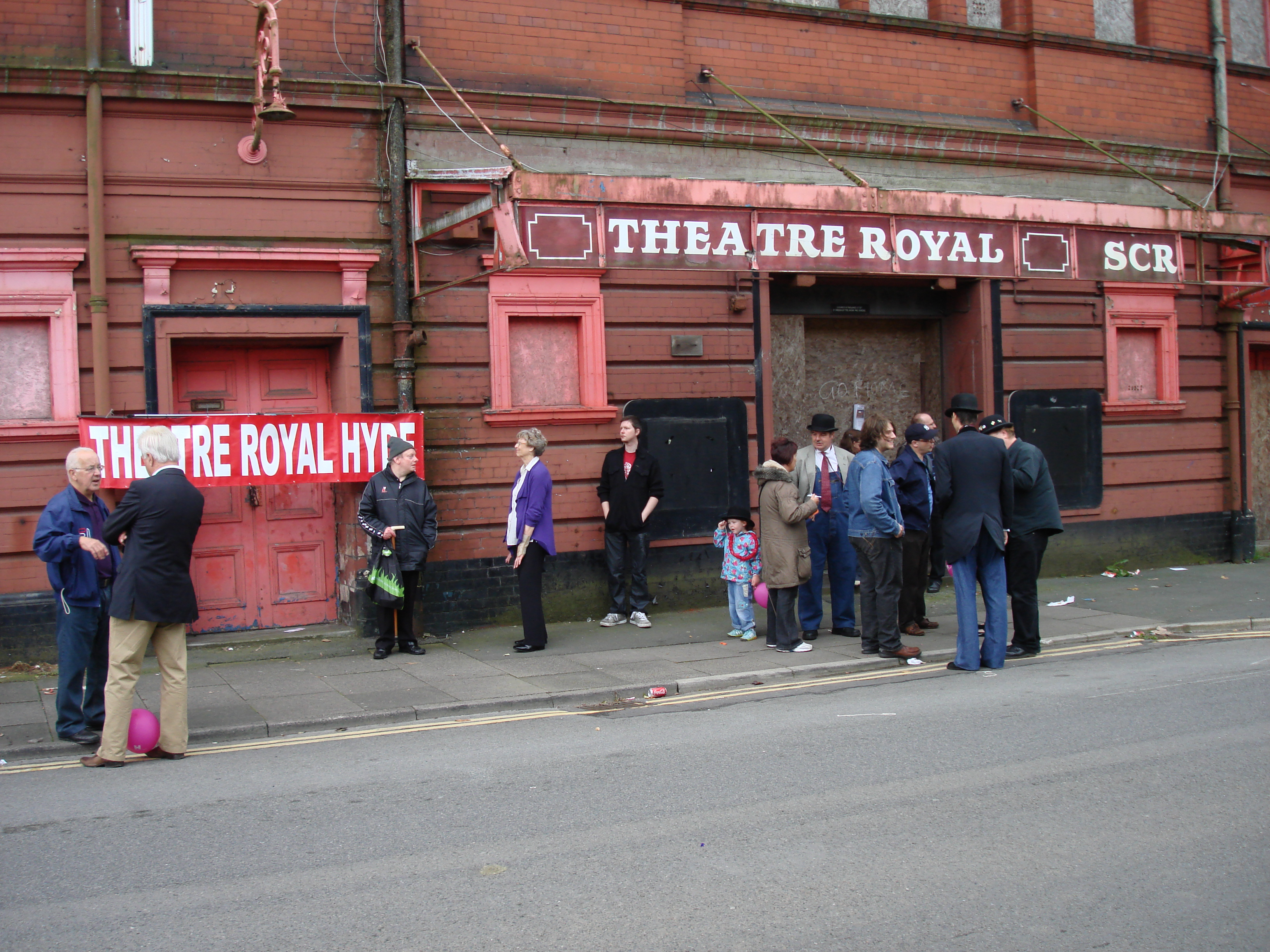 Supporters outside the Theatre Royal, Hyde, 10 September 2011